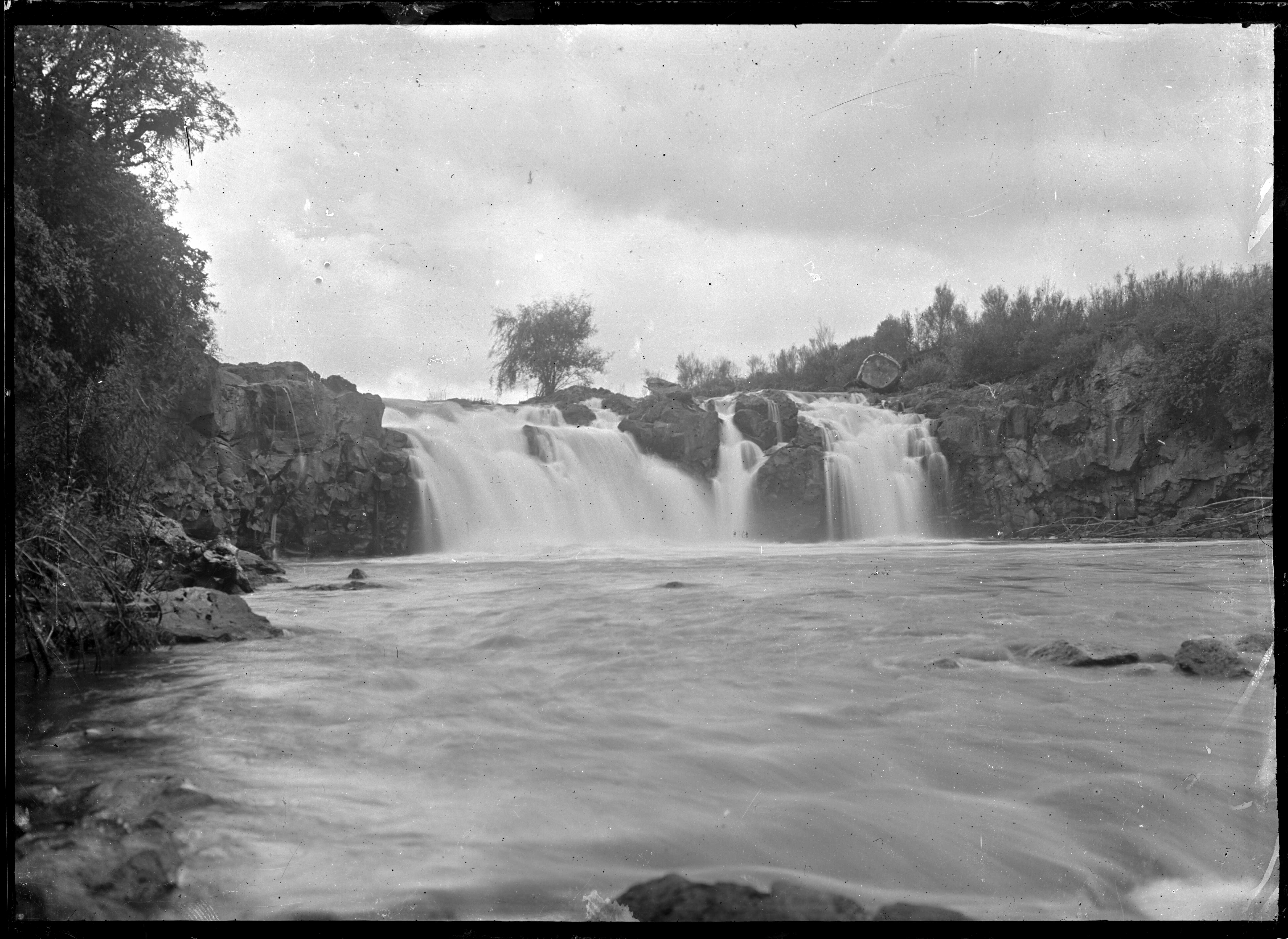 View looking up at the Taheke Falls on the Taheke River, Northland Region. Photograph taken by Albert Percy Godber, in 1918.